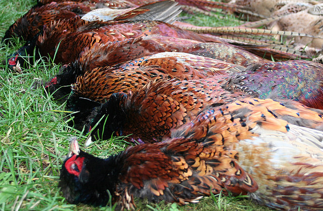 The Serried Ranks of the Fallen. Cock pheasants which fell to the guns await dispersal. Game shooting in many cases provides a necessary financial input to most modern day estates and ironical as it may seem the discipline of shooting ensures the continued health and welfare of divers other fauna and flora.